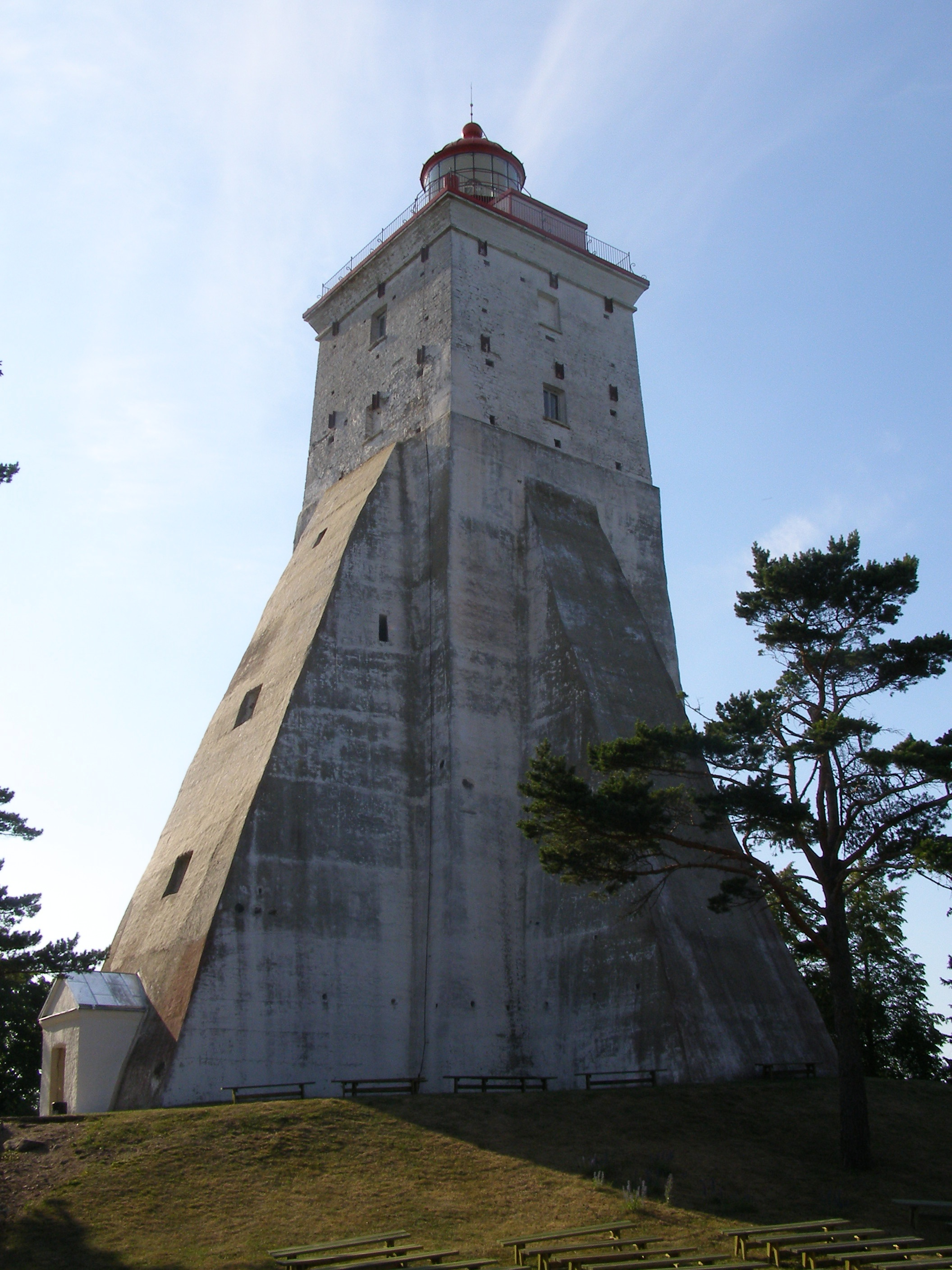 Kõpu lighthouse (Estonia)